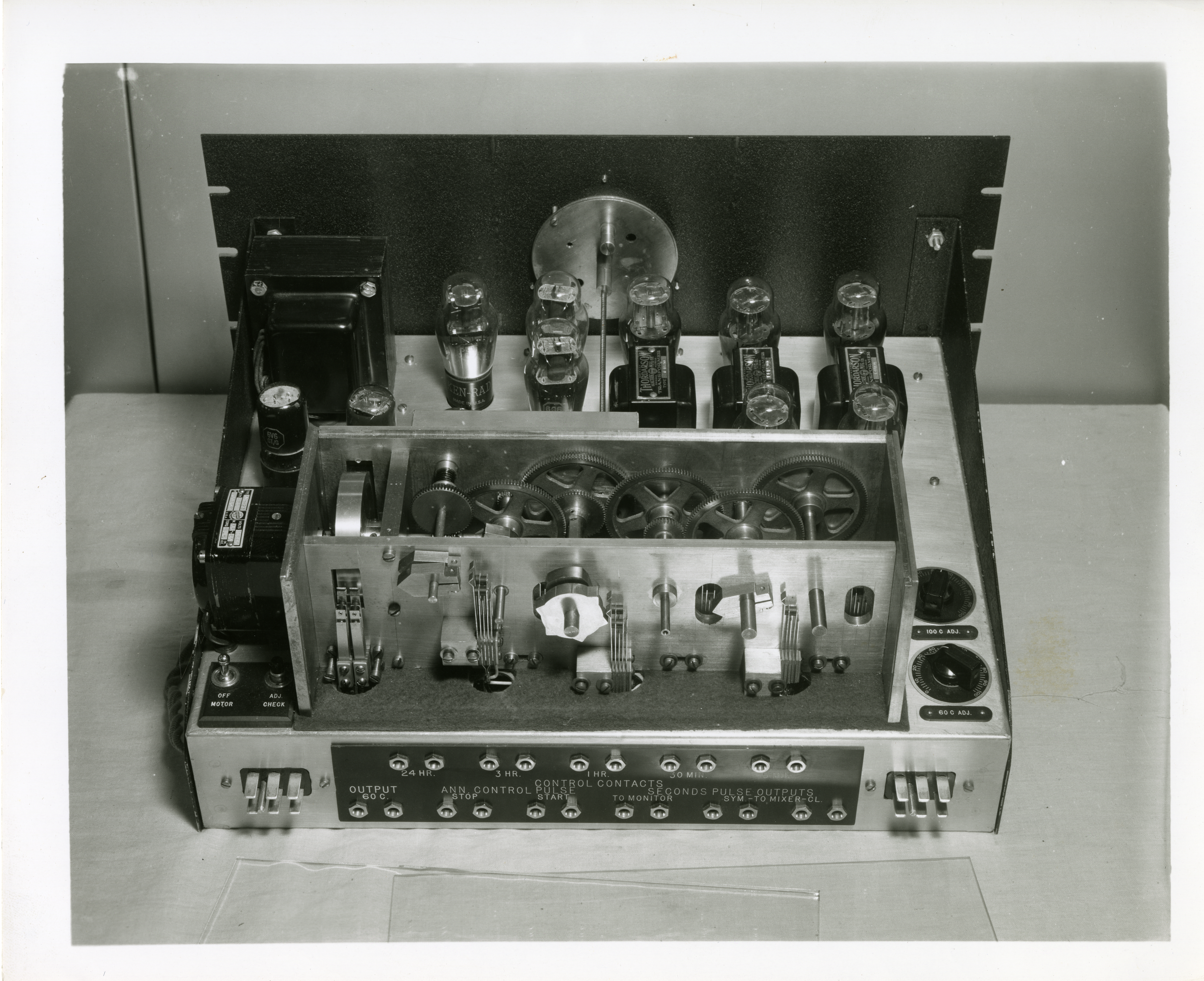 The generator, whose accuracy was controlled by the 100-kc crystal oscillator frequency, provided the seconds pulses, each 0.005 seconds long and consisting of five cycles of a 100-cycle frequency.